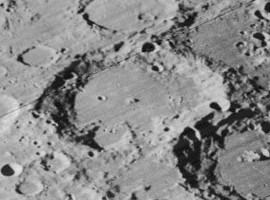 Oblique view of Röntgen crater, on the moon, facing south.